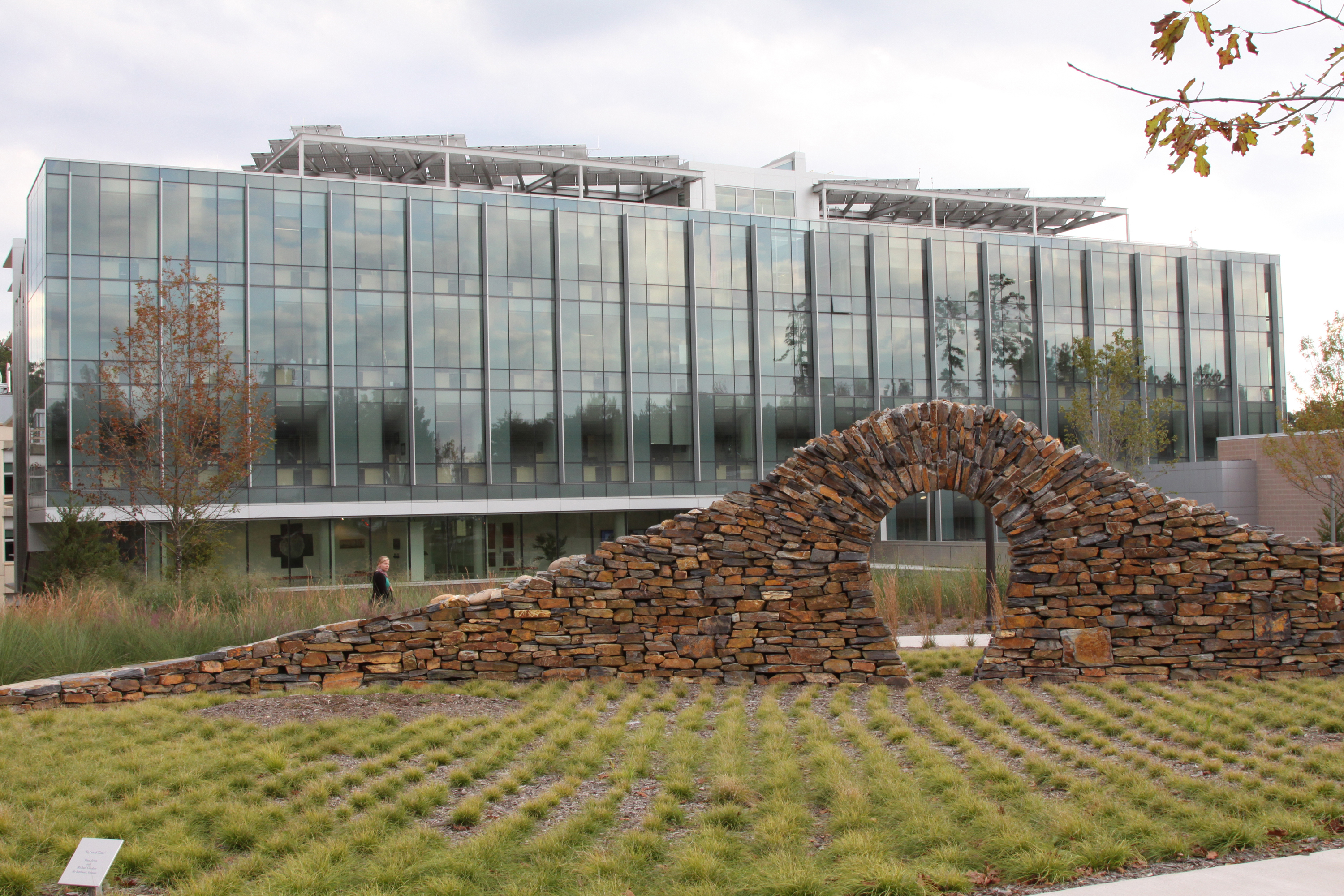 The Nicholas School of the Environment is headquartered in Environment Hall, a new 70,000-square-foot, five-story glass-and-concrete building, located on Circuit Drive on Duke’s West Campus that incorporates start-of-the-art green features and technologies inside and out. It has been designed to meet or exceed the criteria for LEED Green Building platinum certification, the highest level of sustainability. The hall houses five classrooms, a 105-seat auditorium, 45 private offices, 72 open office spaces, a 32-seat computer lab, an outdoor courtyard and an environmental art gallery, as well as conference rooms, shared workrooms and common. Green features range from rooftop solar panels and innovative climate control and water systems, to special windows that moderate light and heat, to an organic orchard and sustainably designed landscaping.